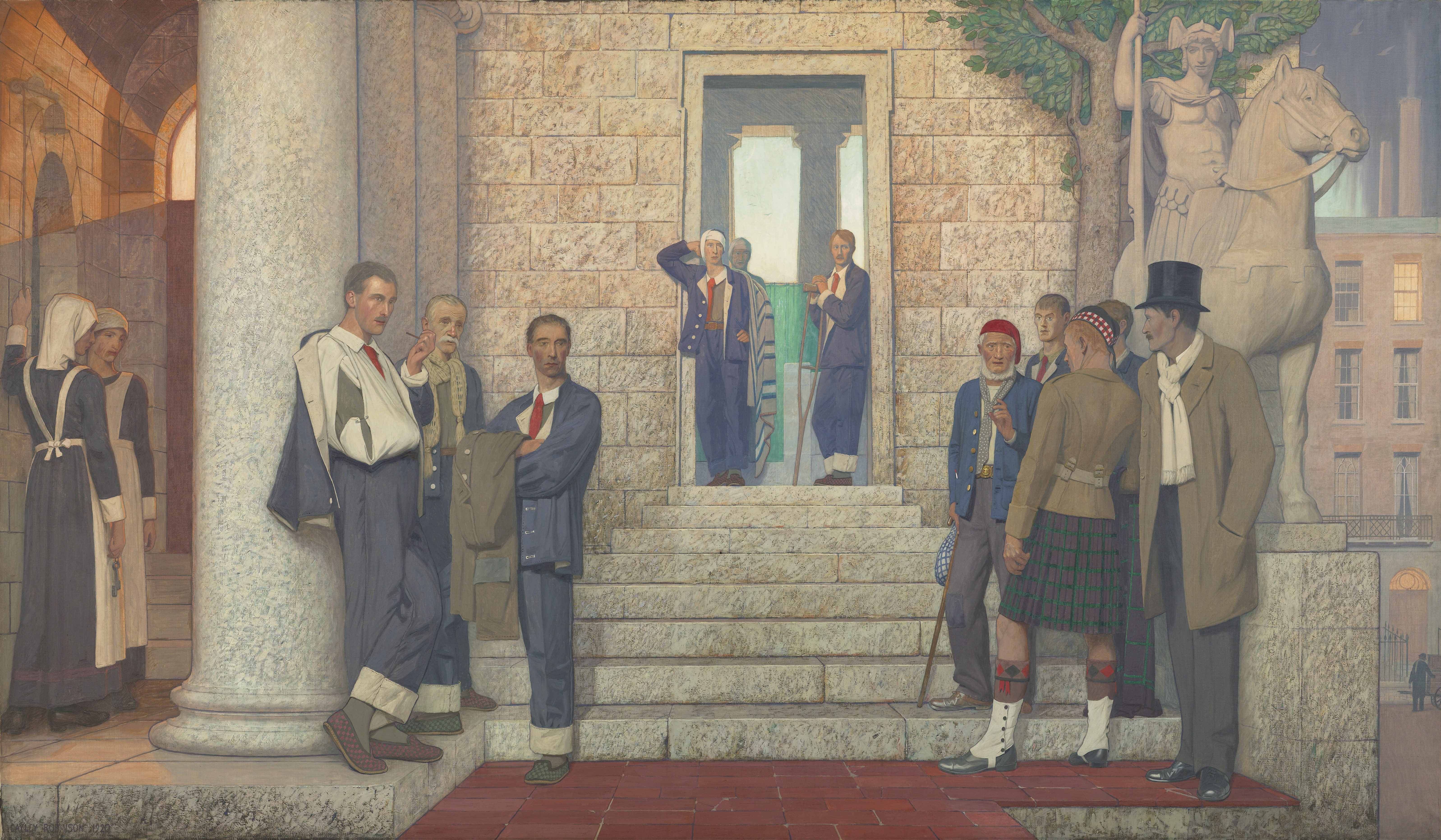 Cayley Robinson painting. The painting shows men attending the hospital. They include soldiers who had returned from World War I and were prevented from working by war wounds or psychological trauma. On the left it is morning and a nurse tolls the time of day (as in religious houses) while on the right evening falls on a terrace of Fitzrovia townhouses. The equestrian statue represents the service of the hospital to the state Iconographic Collections Keywords: Frederic Cayley Robinson; Middlesex Hospital.